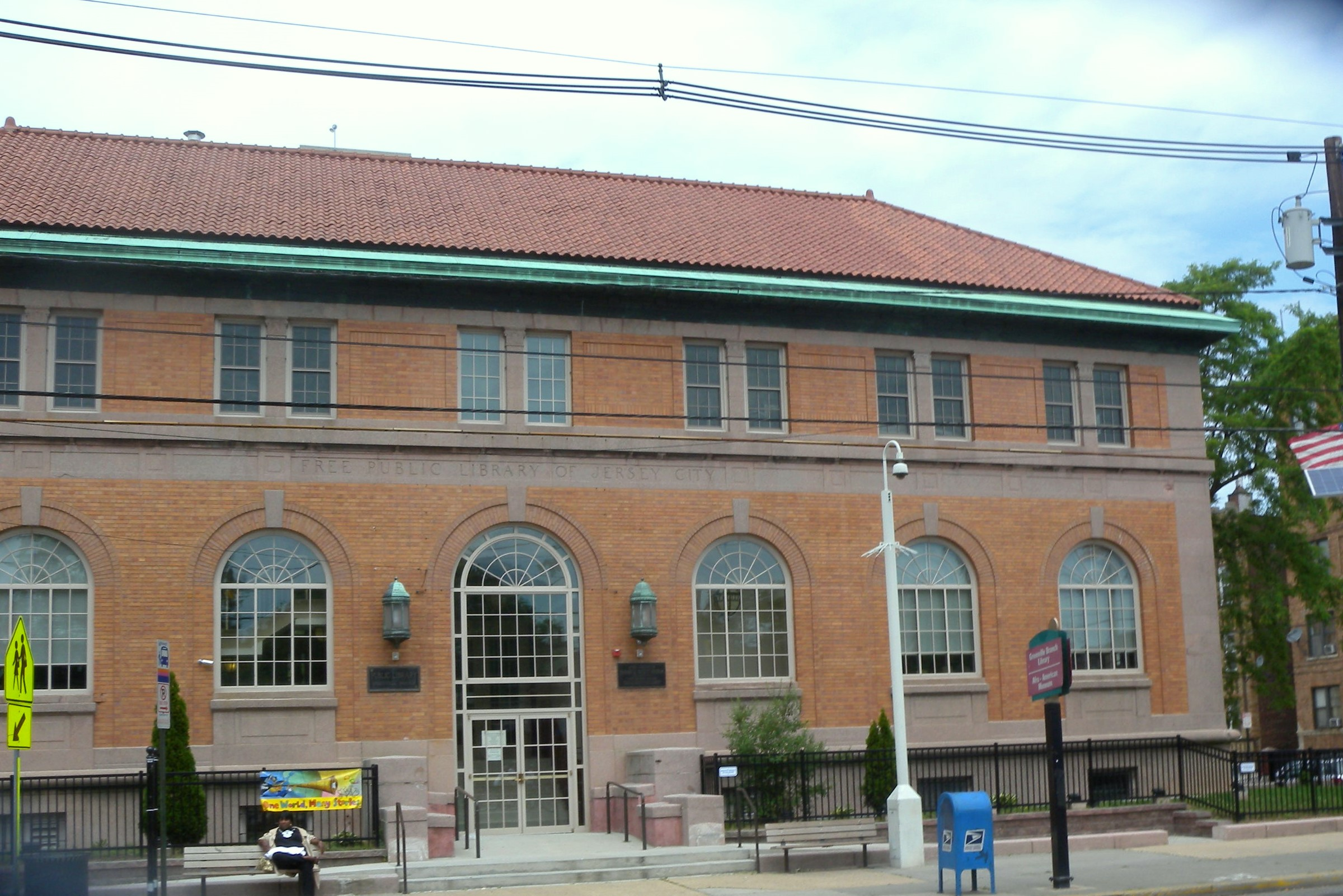 Looking west at the Greenville libary and museum on a mostly cloudy morning.